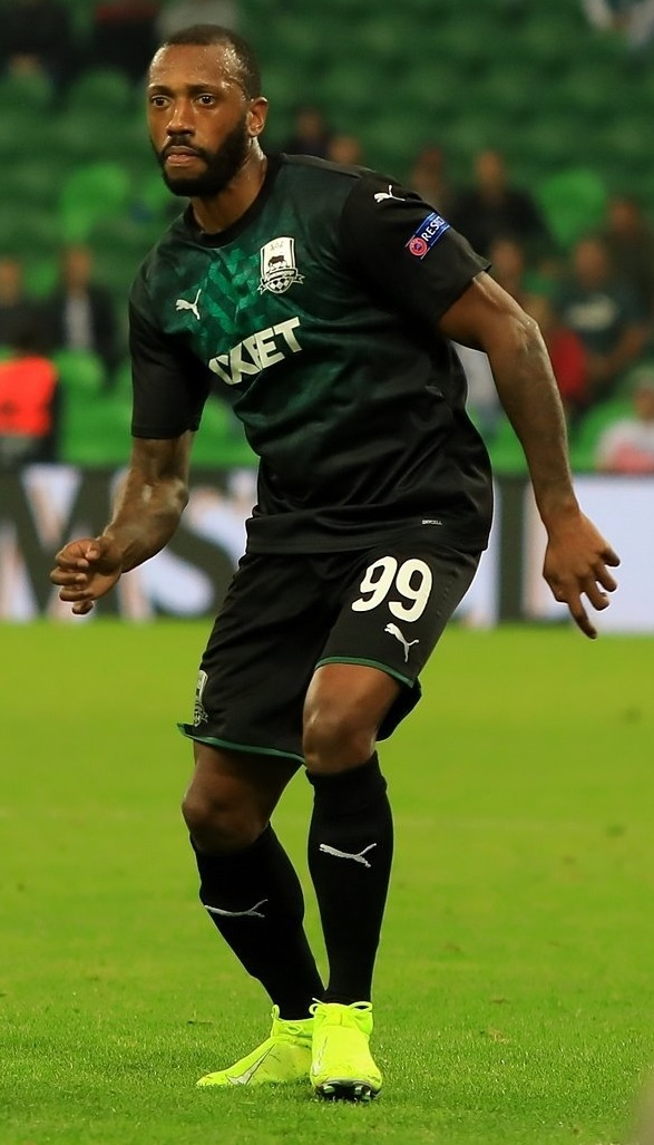 Manuel Fernandes with FC Krasnodar in an Europa League game against Getafe CF.